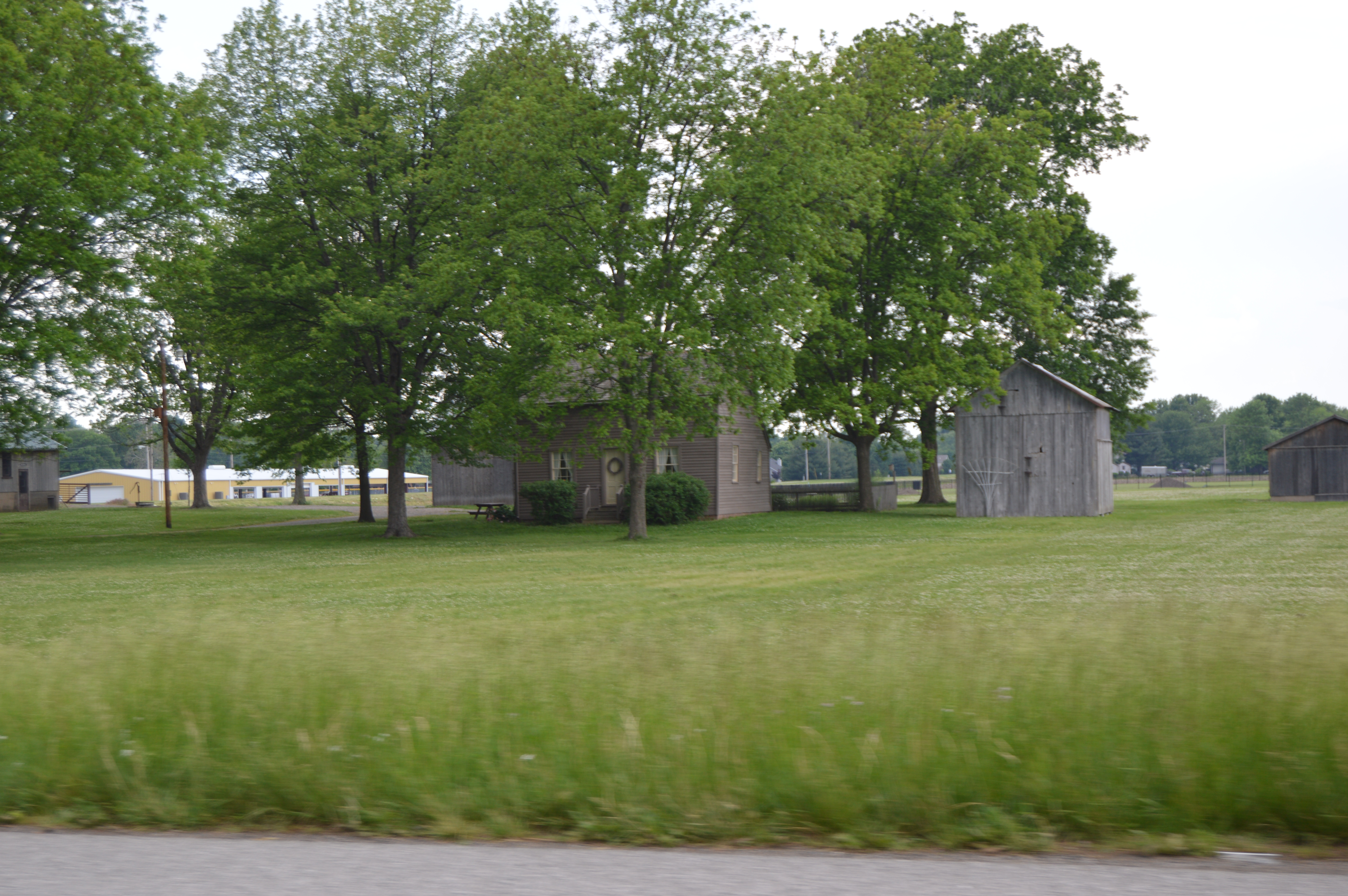 Front and northern side of the Berger-Kiel House, located at 931 N. Sixth Street in Mascoutah, Illinois, United States. Built in 1863, it is listed on the National Register of Historic Places.